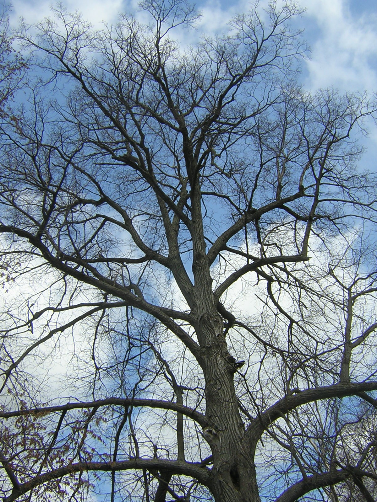 Tilia platyphyllos subsp. cordifolia, habitus. Russia, Ivanovo Region, Savino District